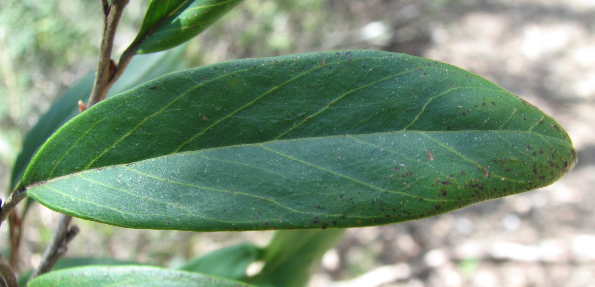 Upper leaf surface of Grevillea victoriae subsp. victoriae, Mount Buffalo National Park, Victoria, Australia